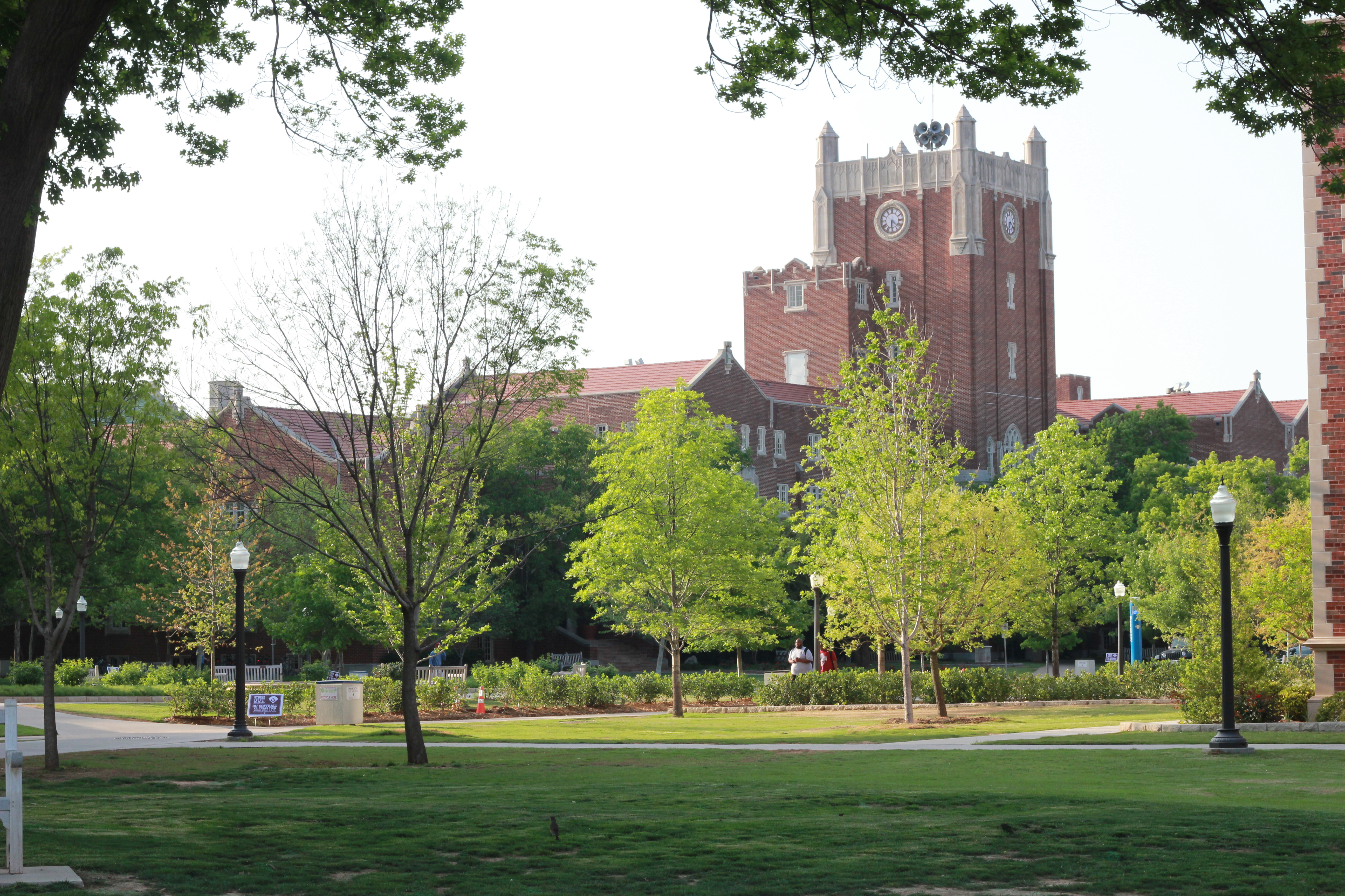 A view of Oklahoma Memorial Union on the campus of the University of Oklahoma in Norman, OK. This picture was taken in April 2012 from the Southeast direction.